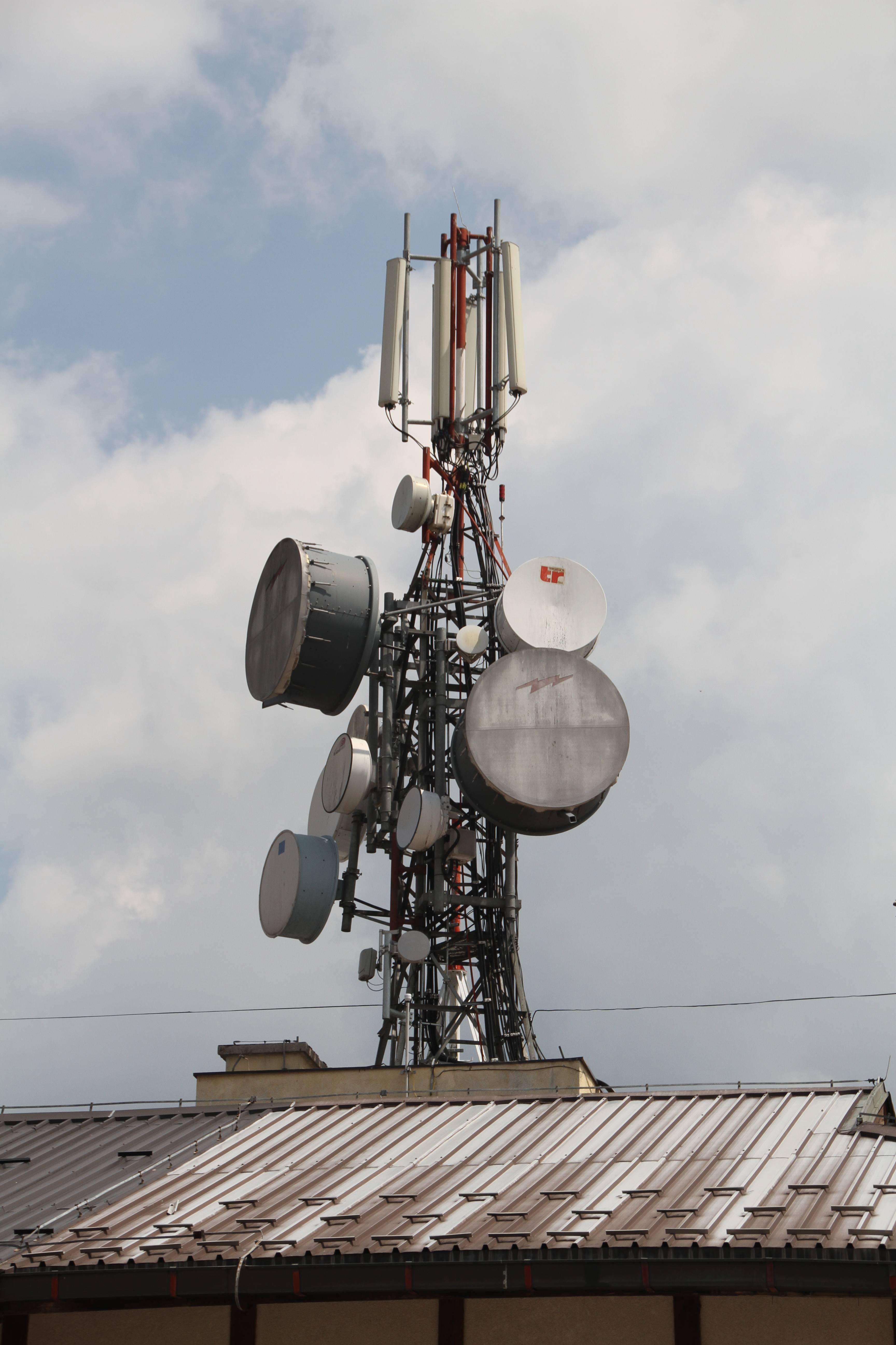 Telecom and radioline infrastructure on roof-top in the city of Pale. Republika Srpska, Bosnia-Hercegovina.